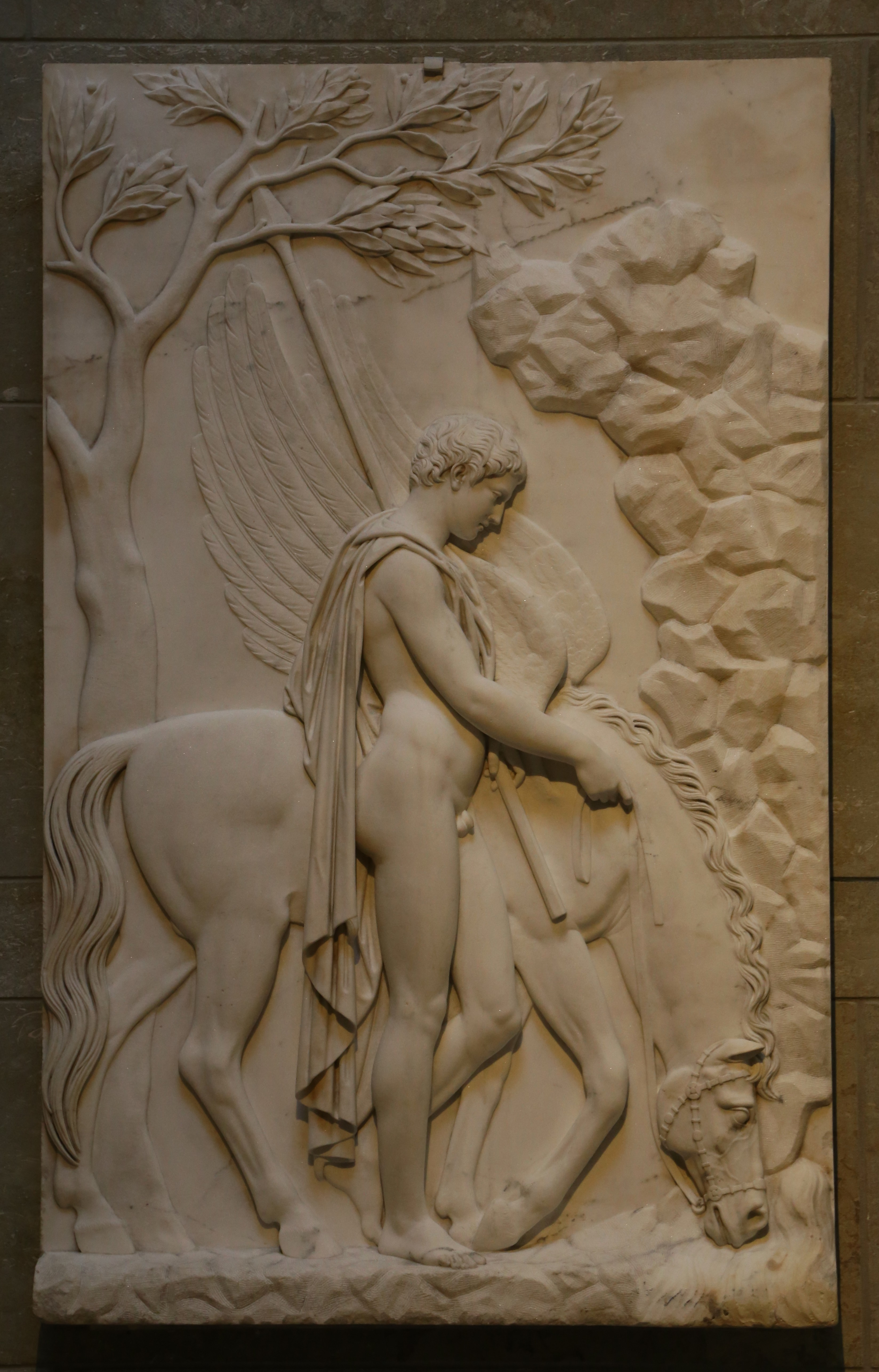 Julius Troschel (1806–1879) Description German sculptor Date of birth/death1806March 1879Location of birth/deathBerlinRomeAuthority control GND: 117423343 WP-Person Bellerophon und Pegasus, 1840-50 Neue Pinakothek Native nameNeue PinakothekLocationMunichCoordinates48° 08′ 59″ N, 11° 34′ 16″ E Established1853Website